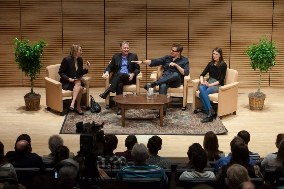 Panelists onstage for BPR's annual media panel. Left to right: Tracy Breton, David Rohde, Chris Hayes, Dana Goldstein